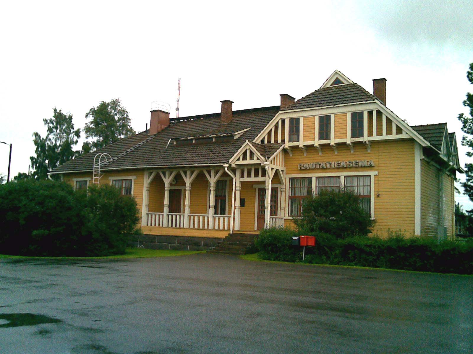 Raahe railway station, Raahe, Finland